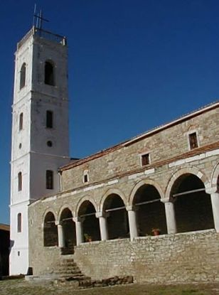 Monastery Ardenice near Fier (Albania)